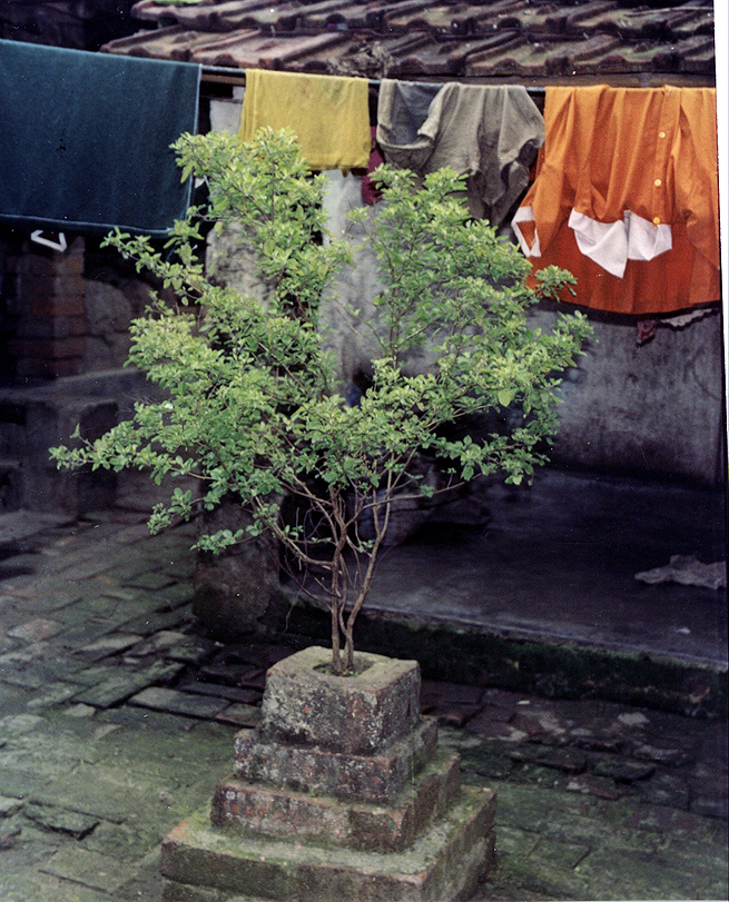 Ocimum tenuiflorum plant. For Hindus it is Tulasi, a sacred plant. The photo shows an altar with the plant for daily worship in a courtyard in India.